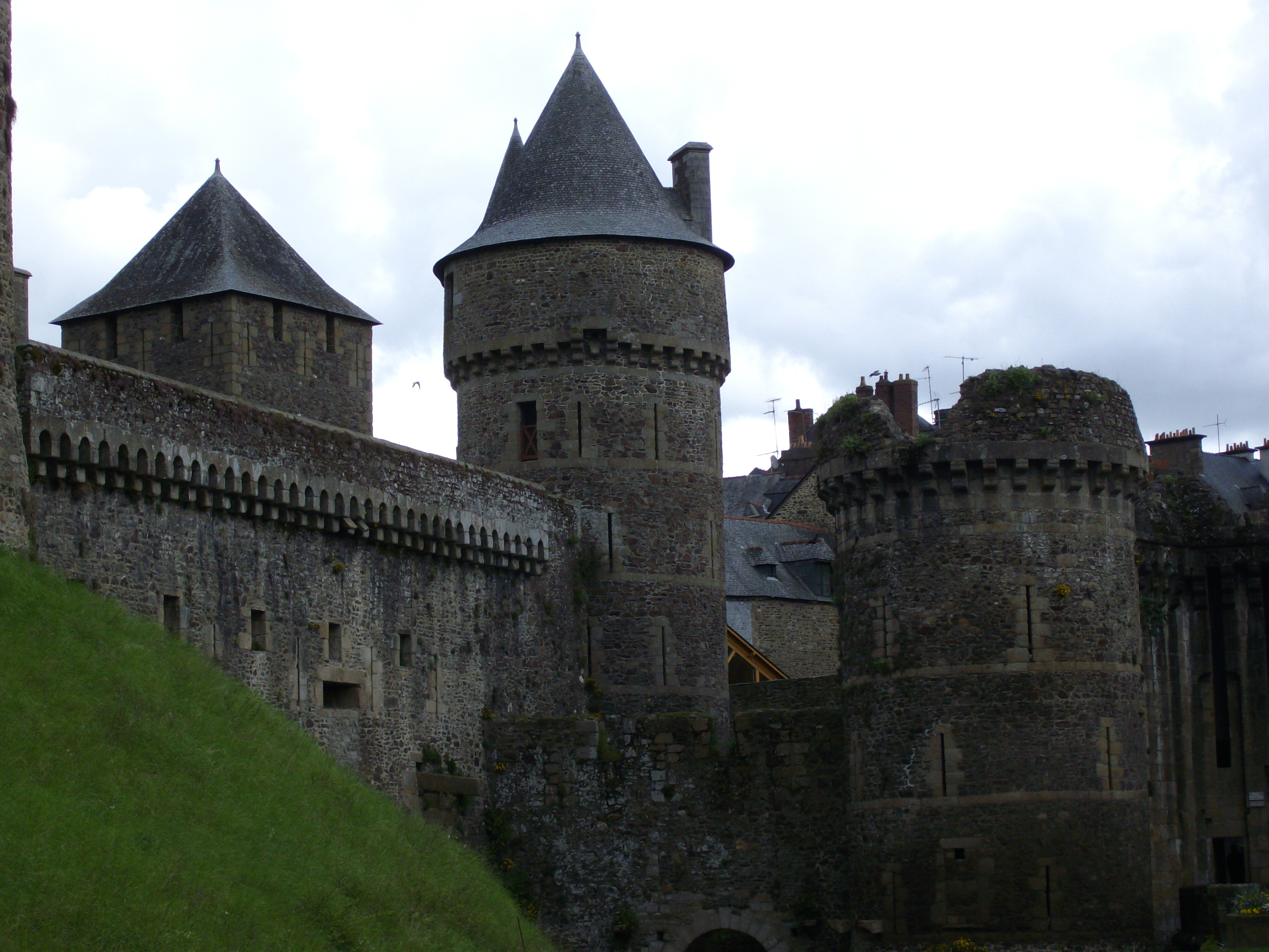 The castle of Fougères in Bretagne